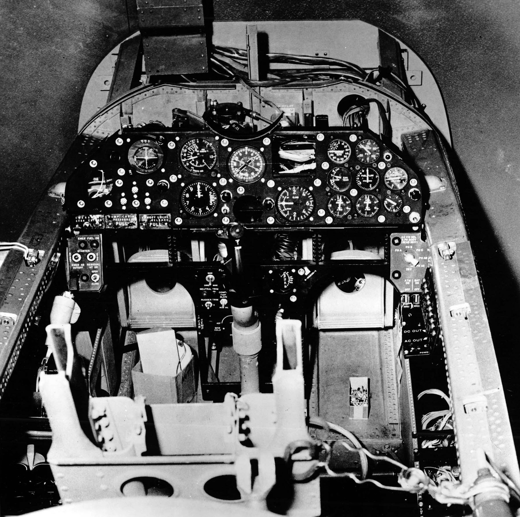 Convair F-102A cockpit flight simulator mock-up.